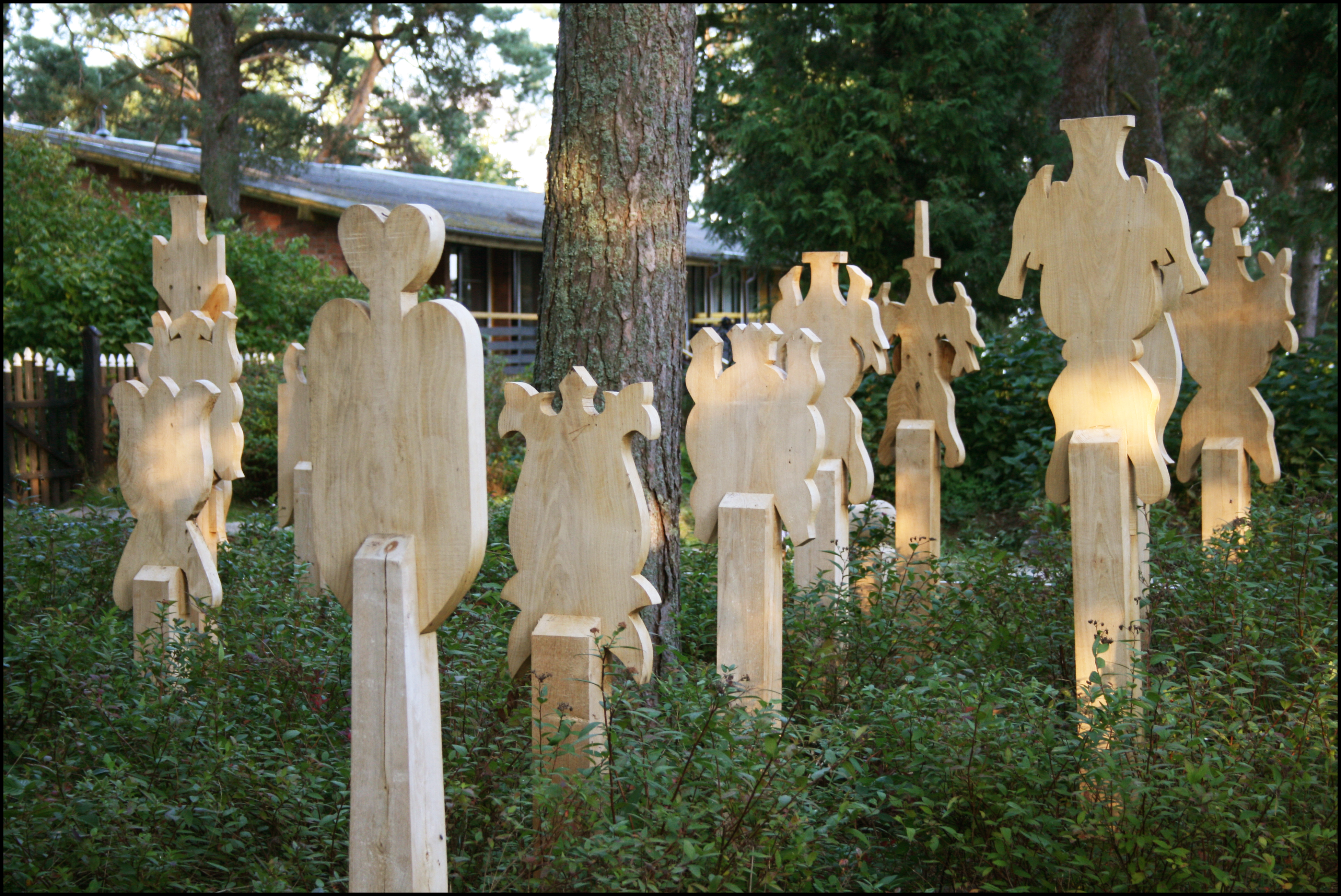 Ethnographic Cemetery And Christenings / Krikštas Nidos kapinēse (2010)